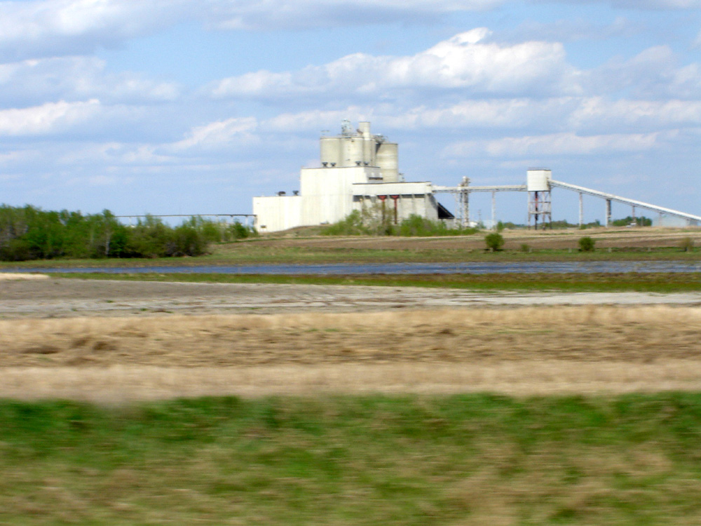 Potash Corporation of Saskatchewan (PCS) Patience Lake Mine located north of Saskatchewan Highway 16 or Yellowhead Highway